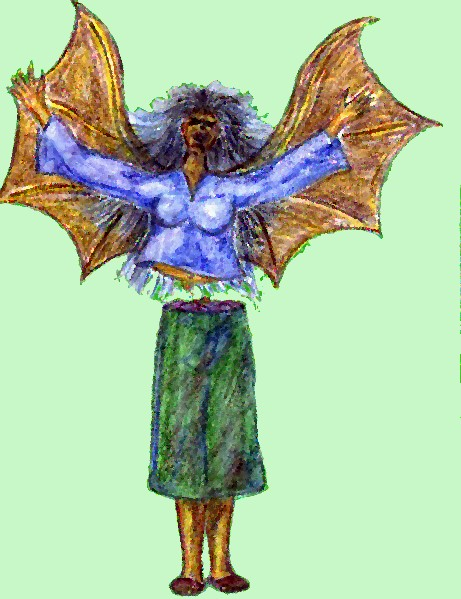 Illustration of the Manananggal of Philippine folklore. This illustration was created using mixed media: pencil, colored pencil, watercolor pencil. For this illustration the artist employed sketching, line-drawing and wash techniques. This illustration was electronically enhanced.